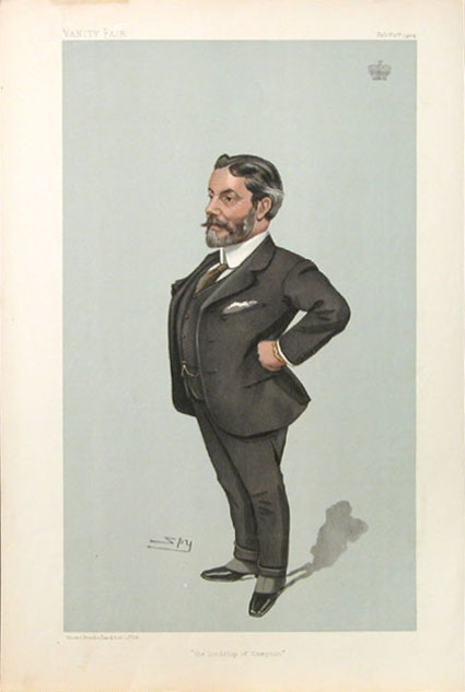 William Compton, 5th Marquess of Northampton by Spy (Leslie Ward). Caption reads: "The Lordship of Compton"